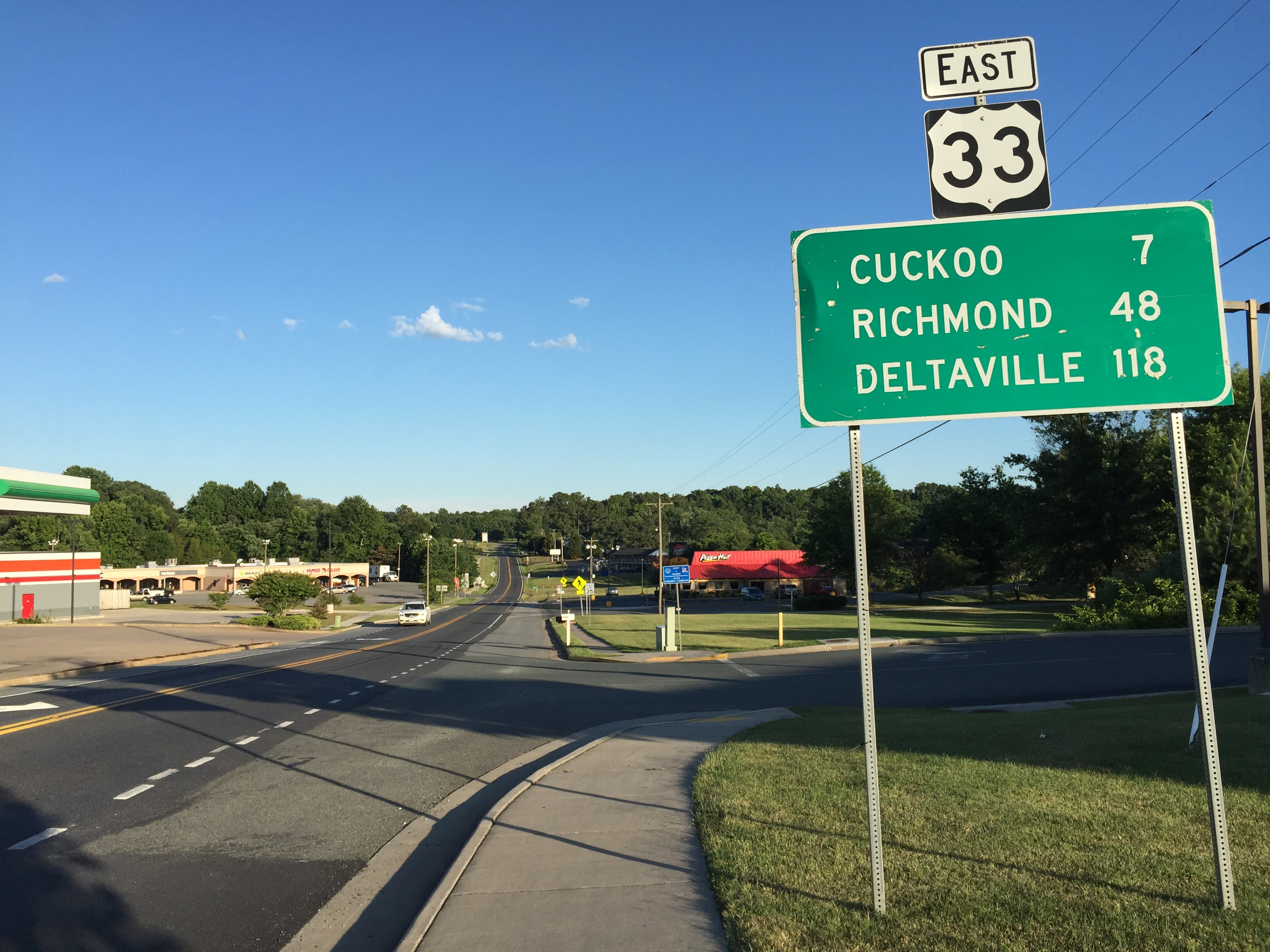 View east along U.S. Route 33 (Jefferson Highway) at Virginia State Route 22 and Virginia State Route 208 (Main Street) in Louisa, Louisa County, Virginia